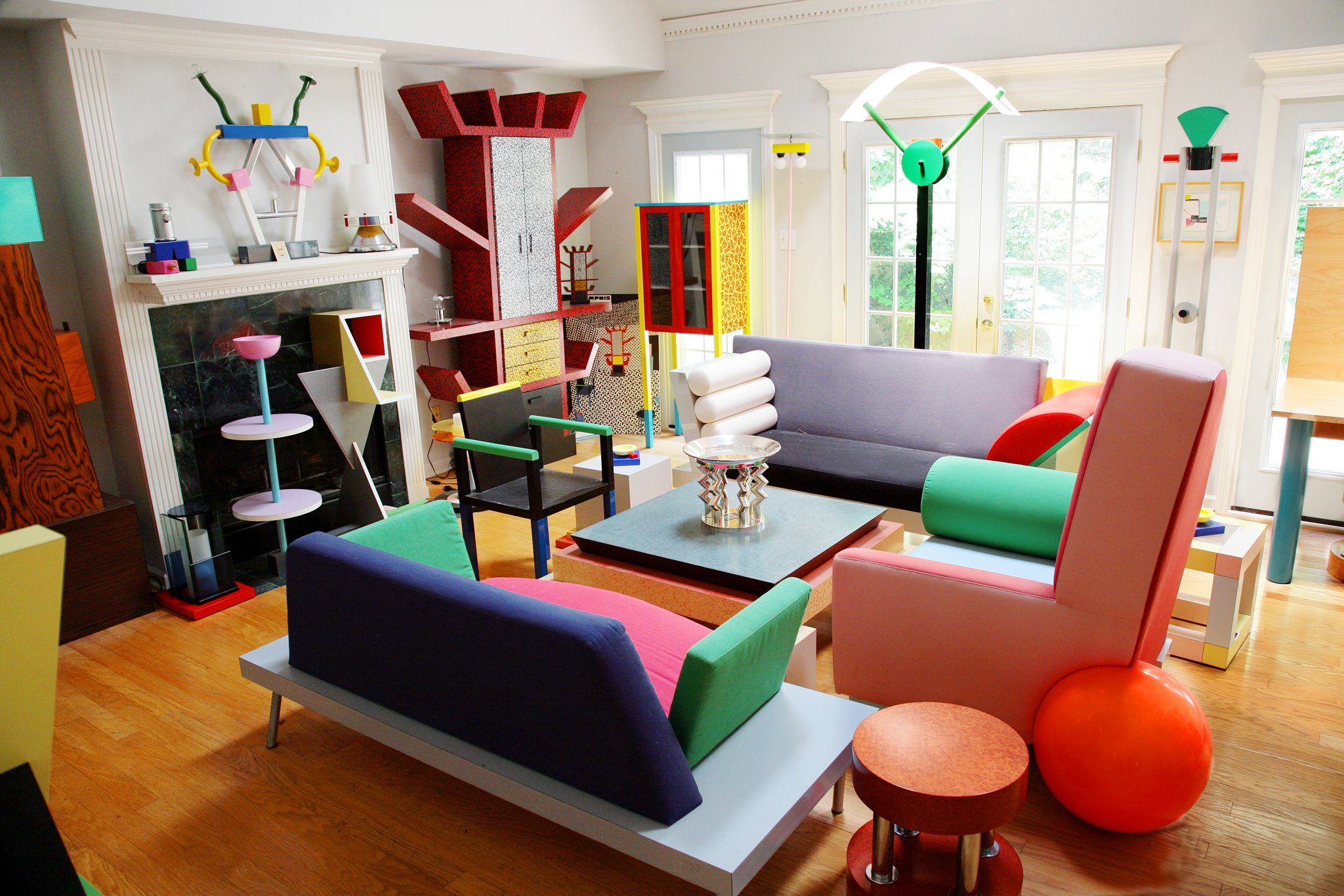 1980s design movement started in 1981 by Ettore Sottsass and a group of young designers who wanted to challenge the established notions of good design at the time.